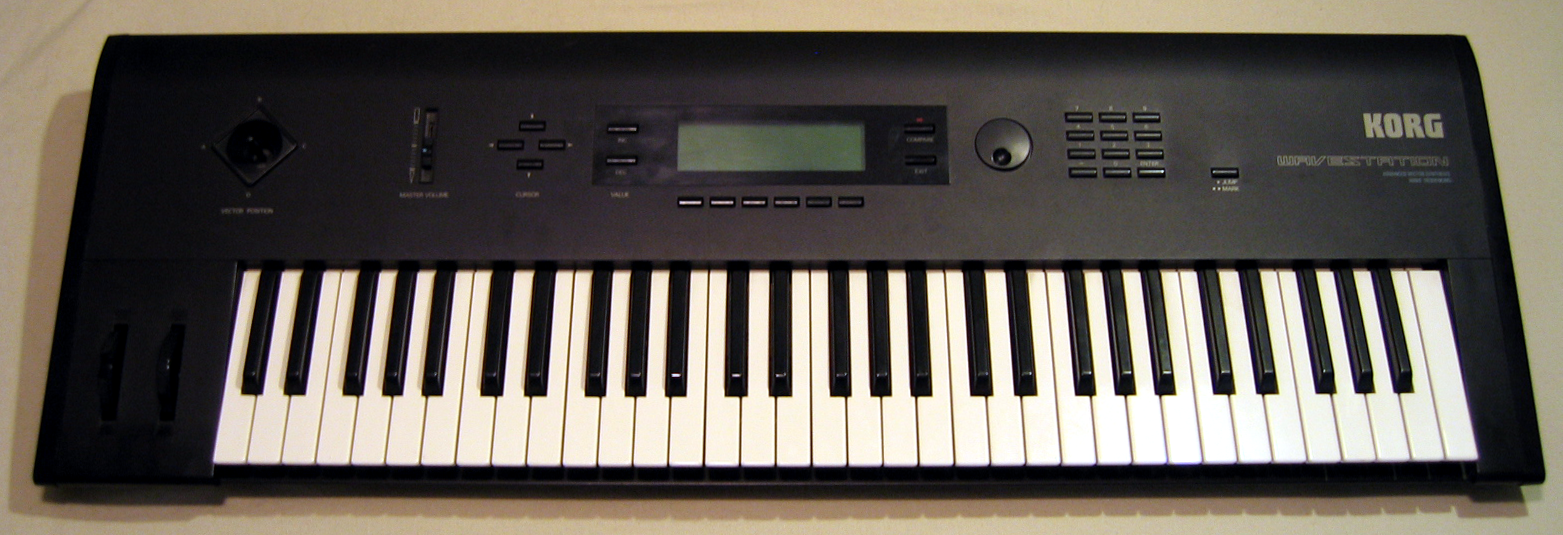 A photograph of the front of a Korg Wavestation synthesizer.